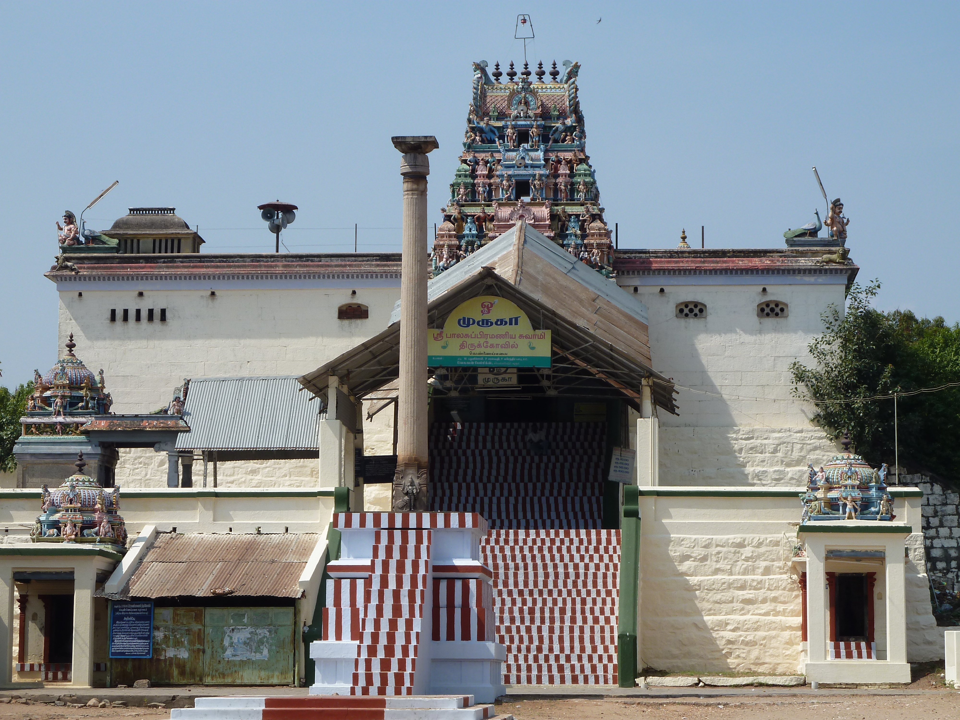 This the entrance of the sri balasubramania swamy temple, Vennamalai, Karur, India